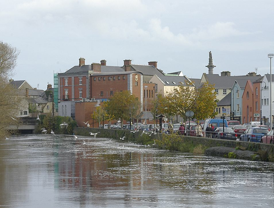 View of Ennis County Clare, Danny Burke